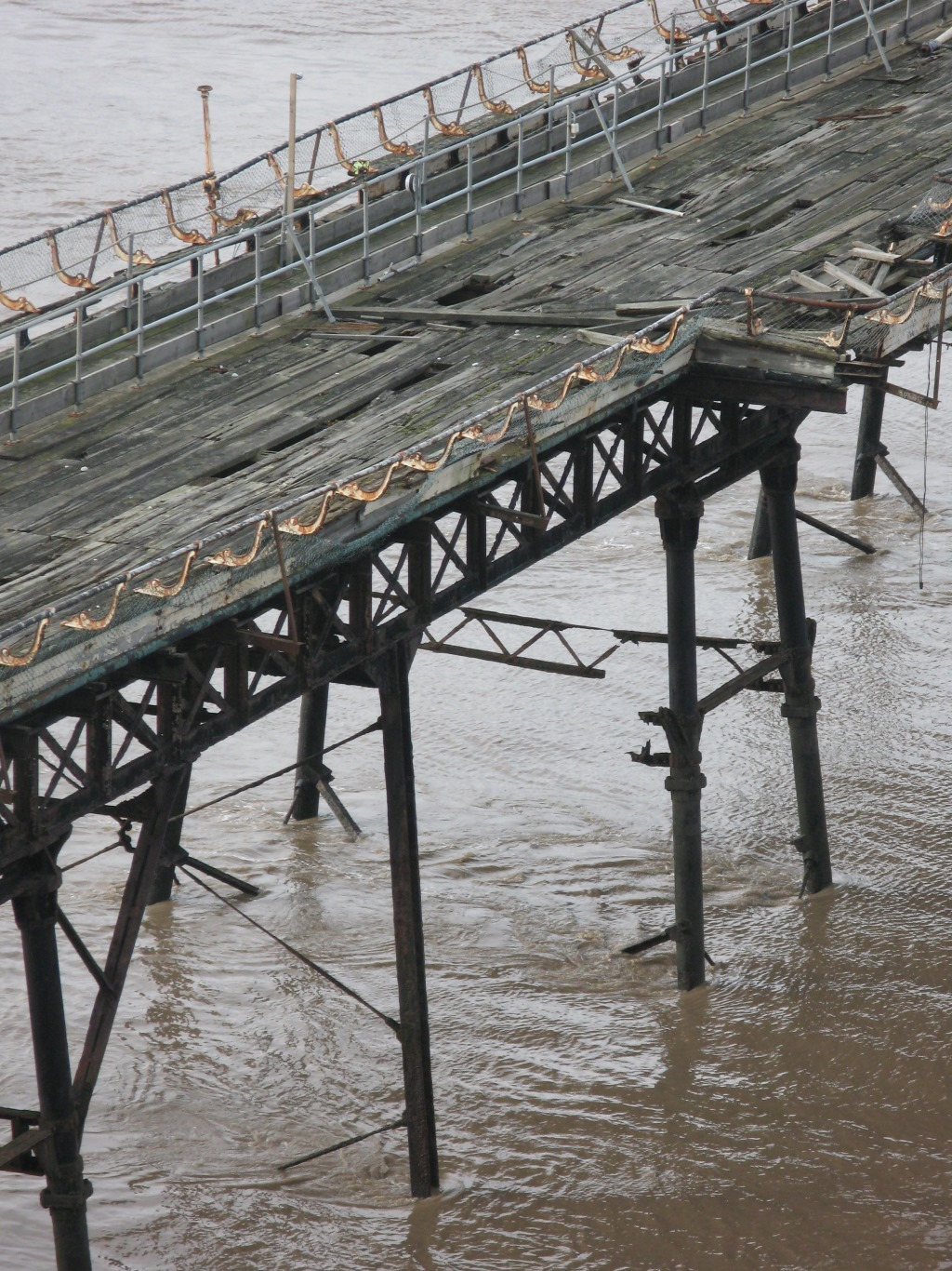 The old Birnbeck Pier at Weston-super-Mare continues to rot away in the winter of 2016. This view is looking down from the shore onto the north side of the bridge that links the mainland with Birnbeck Island.